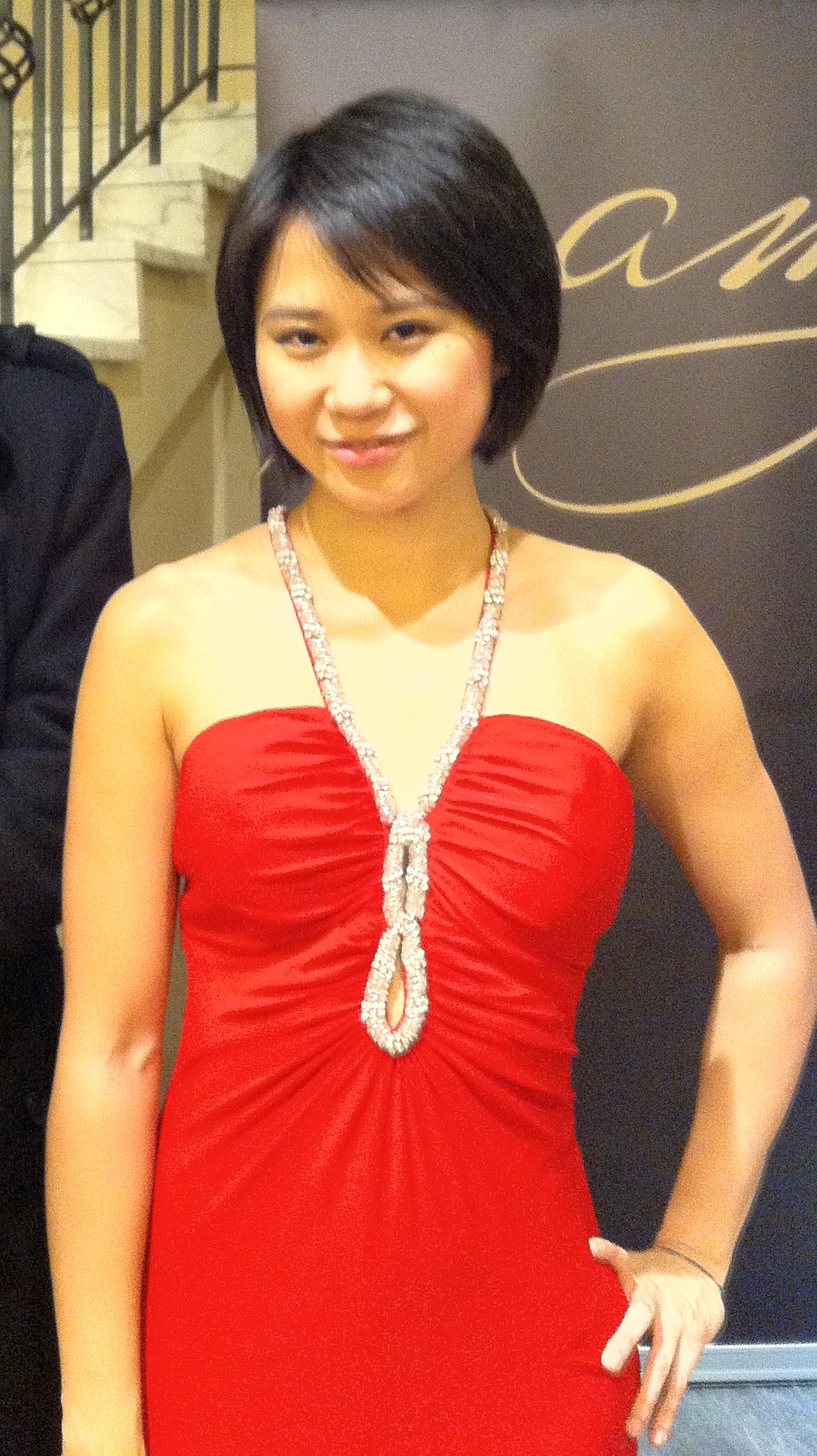 Yuja Wang, after her piano concert in Stadtcasino, Basel, Switzerland, on 19th March 2012.